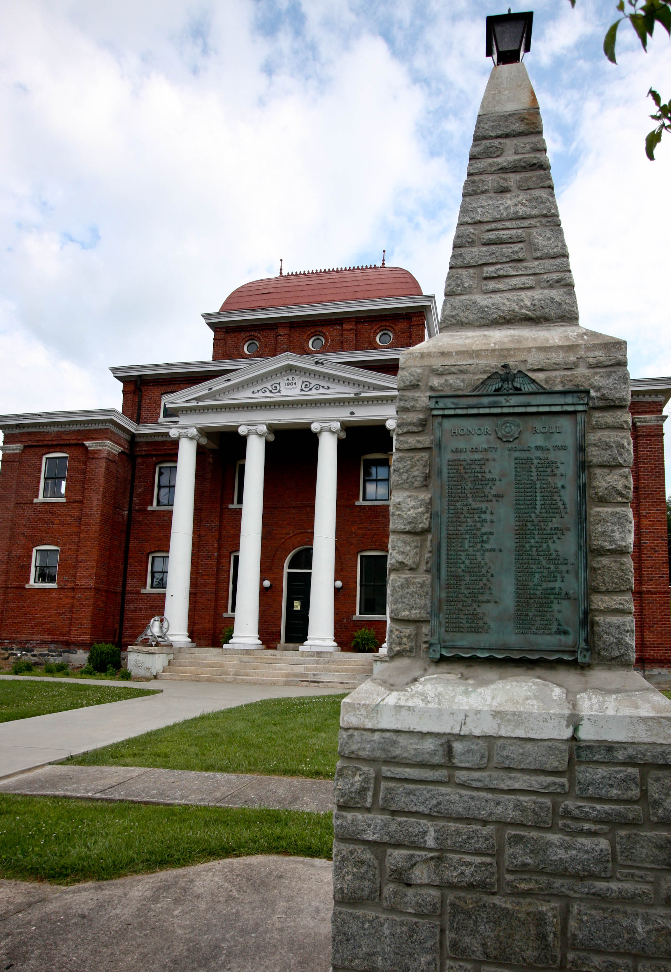 The 1904 Ashe County courthouse and World War II Honor Roll monument located in Jefferson, NC